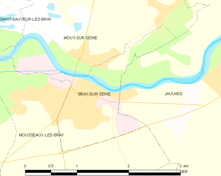 Map of French municipality Bray-sur-Seine